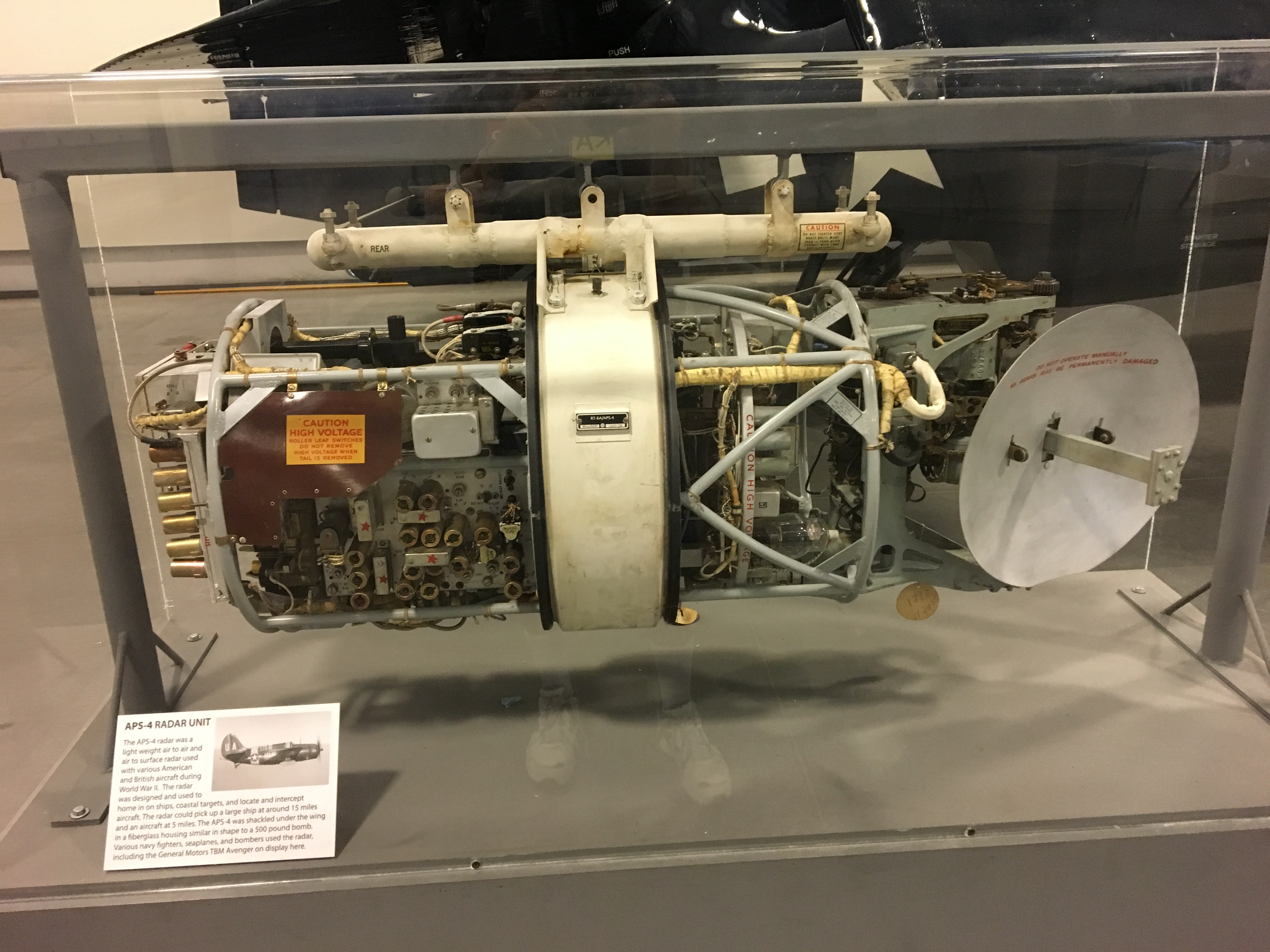 An AN/APS-4 radar from the Pima Air & Space Museum.